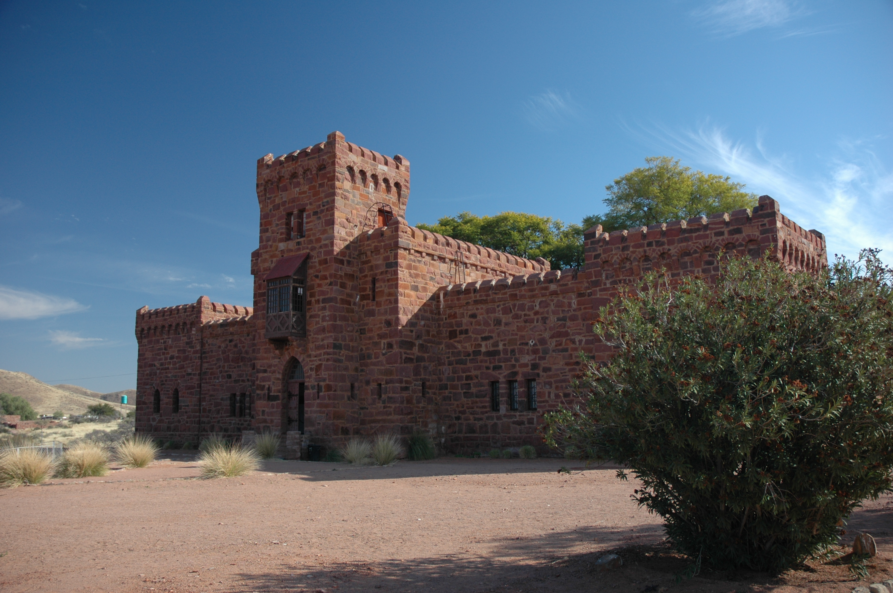 Namibie Duwisib Castle Photographie prise par GIRAUD Patrick